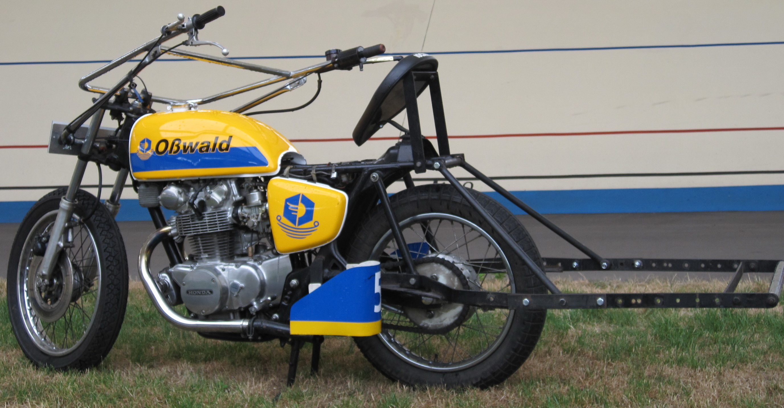 Motor cyle for motor paced races